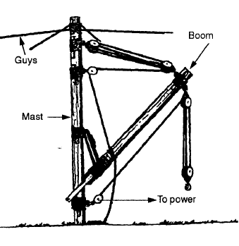 Guy derrick with nonrotatable mast (rigging a boom on a gin pole).